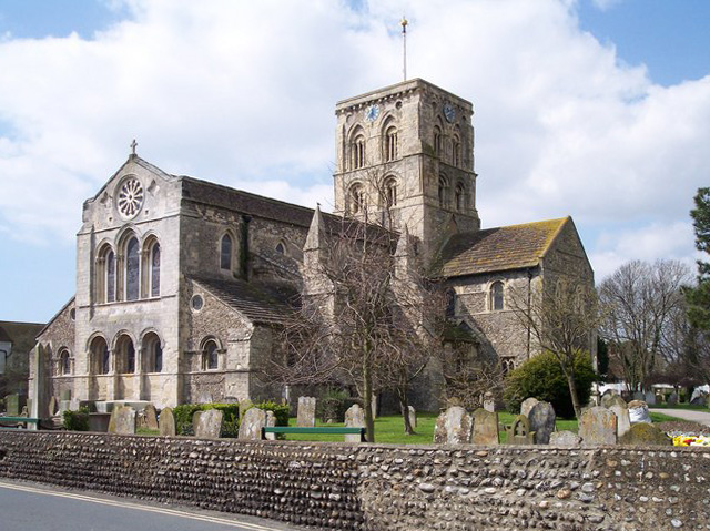 Shoreham Church The earlier settlement (now called Old Shoreham)is further up the river adur. In the 11th century the Norman's established the new Shoreham as an important haven laid out on a rectangular grid. The church of St. Mary de Haura is dated AD 1103.